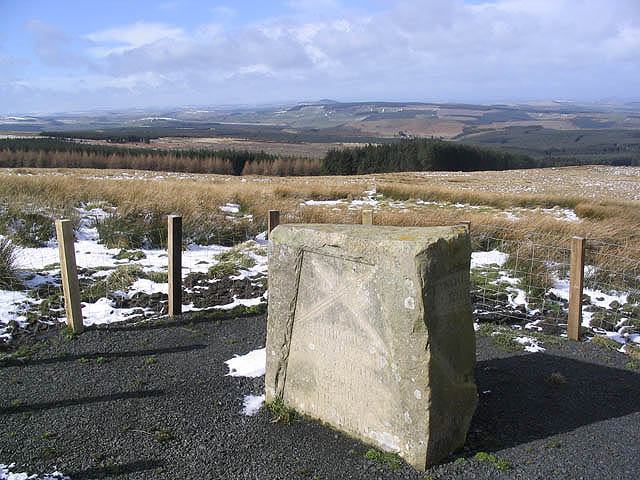 The Redeswire Stone This stone commemorates the Raid of the Redeswire, a border skirmish between England and Scotland on July 7th 1575. The inscription on the stone reads:- ON THIS RIDGE JULY 7th 1575 WAS FOUGHT ONE OF THE LAST BORDER FRAYS KNOWN AS THE RAID OF THE REDESWIRE